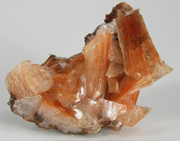 Heulandite Locality: Garrawilla Station, Coonabarabran district, Pottinger County, New South Wales, Australia (Locality at ) Size: 4.5 x 2.9 x 1.3 cm. Exceptionally glassy and lustrous, burnt-orange, bladed aggregates of heulandite crystals are aesthetically set, jackstraw-fashion, on this fine specimen from the classic New South Wales zeolite locality of the Garrawilla Station. The blades reach 1.9 cm. Ex. Jamie Bird Collection.